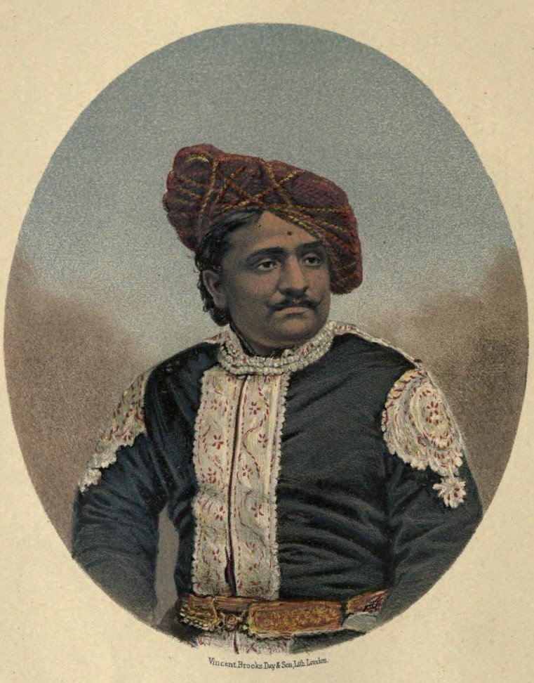 Rajaram Chatrapati of Kolhapur